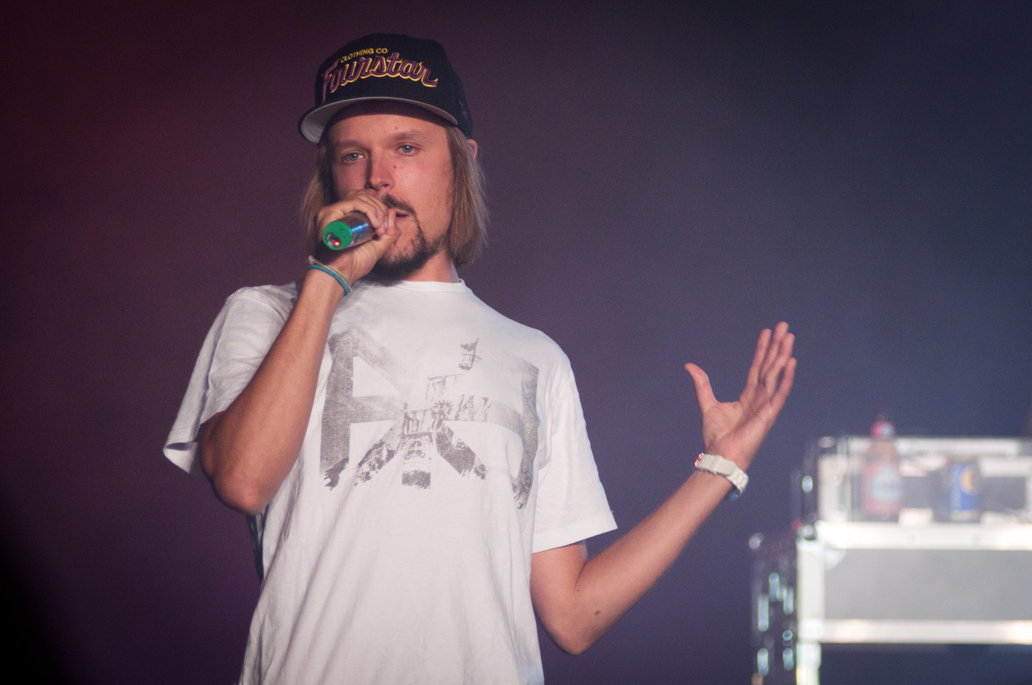 Finnish reggae artist Jukka Poika performing in Lappeenranta, Finland.